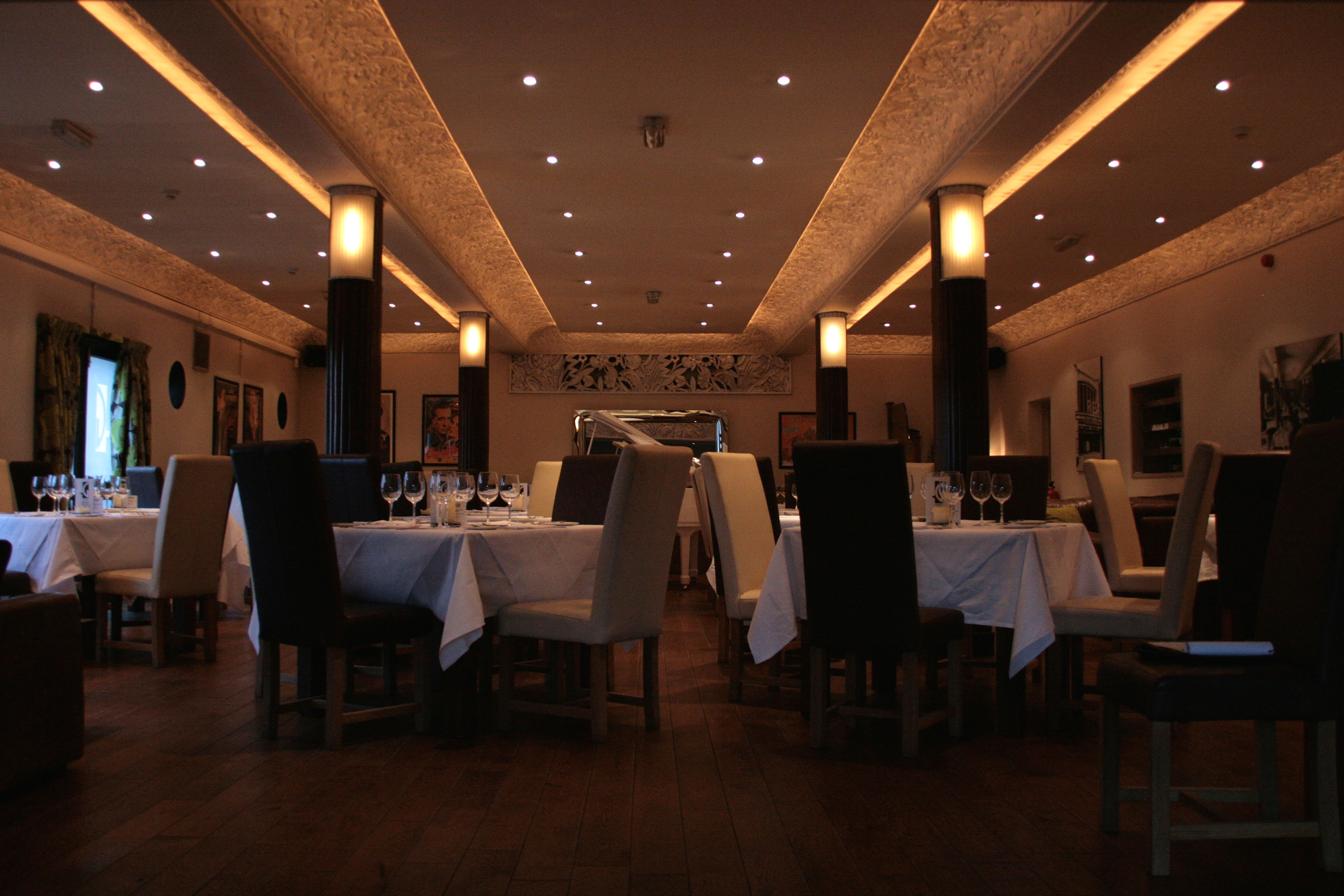 The sumptuous Art Deco interior of the Gatsby Restaurant (formerly the dining room of the Rex Cinema) in Berkhamsted, Hertfordshire, UK